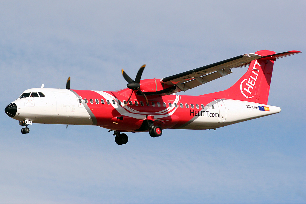 First flight of this released route, from Valencia VLC to Sevilla SVQ.